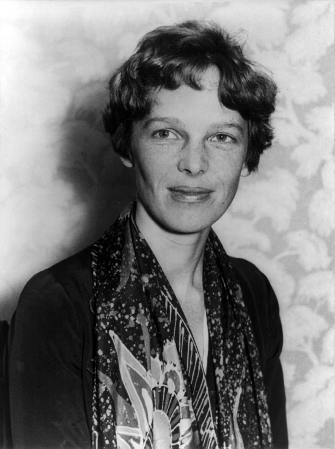 Portrait of American aviation pioneer Amelia Earhart. EARHART, AMELIA